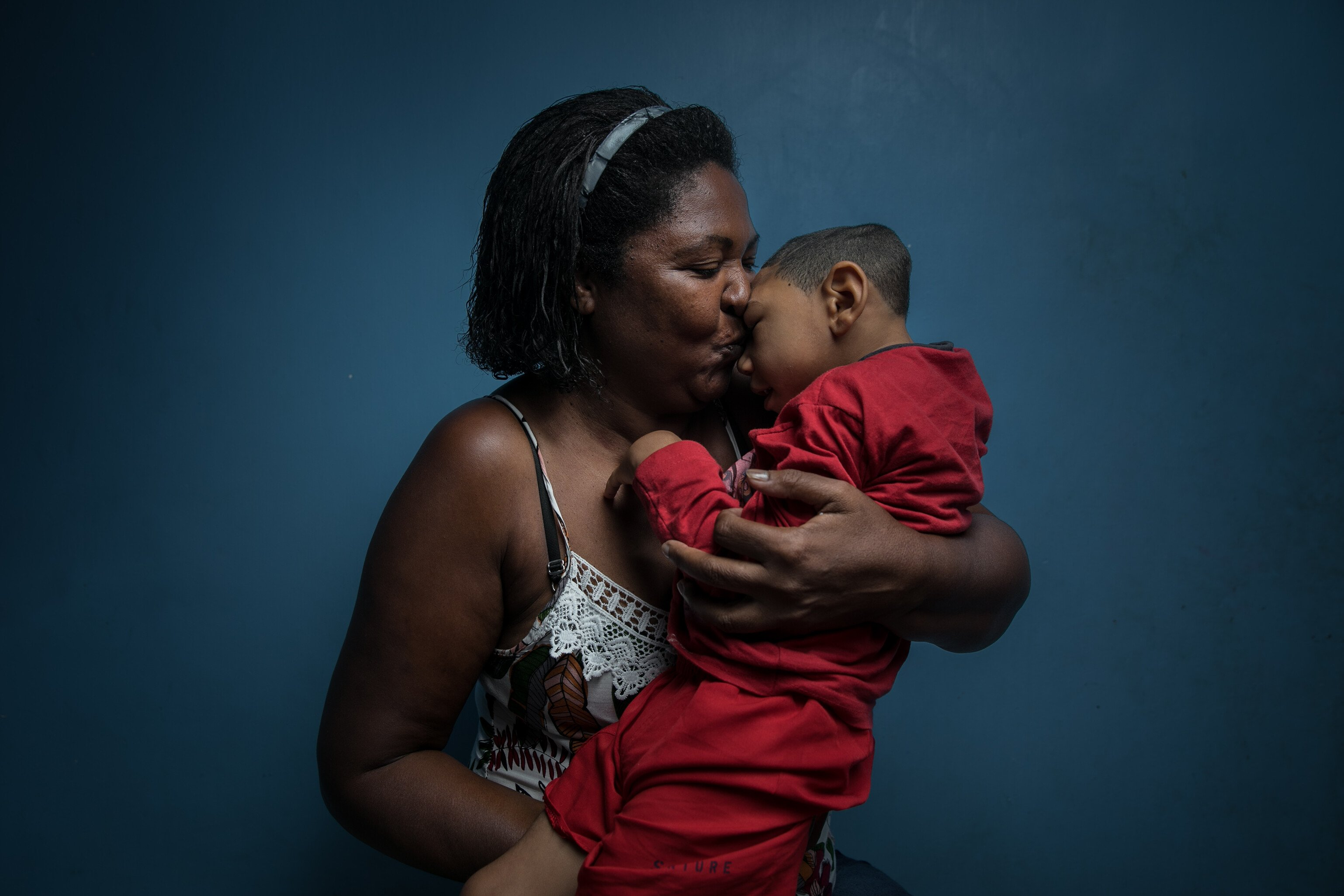 Mother embraces her child born with microcephaly. Rio de Janeiro, Brazil. João was born with microcephaly – he has a smaller head and under-developed brain. This once-rare condition is becoming more common in Brazil because of Zika outbreaks. Many families struggle to cope with the needs of children with microcephaly, and more and more are abandoned – including João. He was later adopted by Marilene and given a loving home. The wider story. In October 2015, Brazil reported a link between Zika infections among pregnant women and cases of microcephaly in their newborn babies. The condition can cause long-term physical impairments, but researchers have recently found that certain treatments within the first six months of infancy, such as physiotherapy, can reduce these effects.